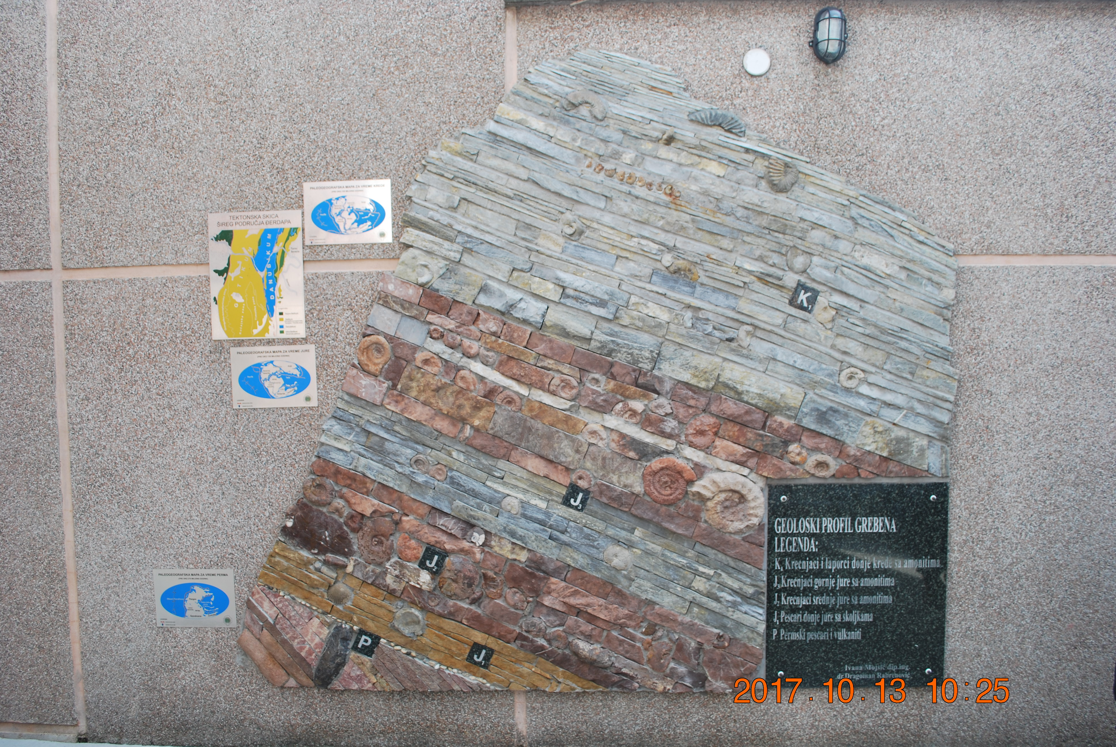 Djerdap National Park in south-eastern Europe, in the northeastern part of Serbia, on the border with Romania.